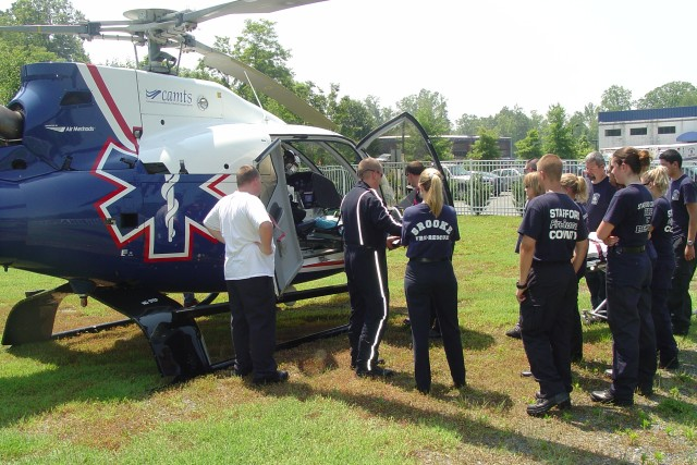 LifeEvacII